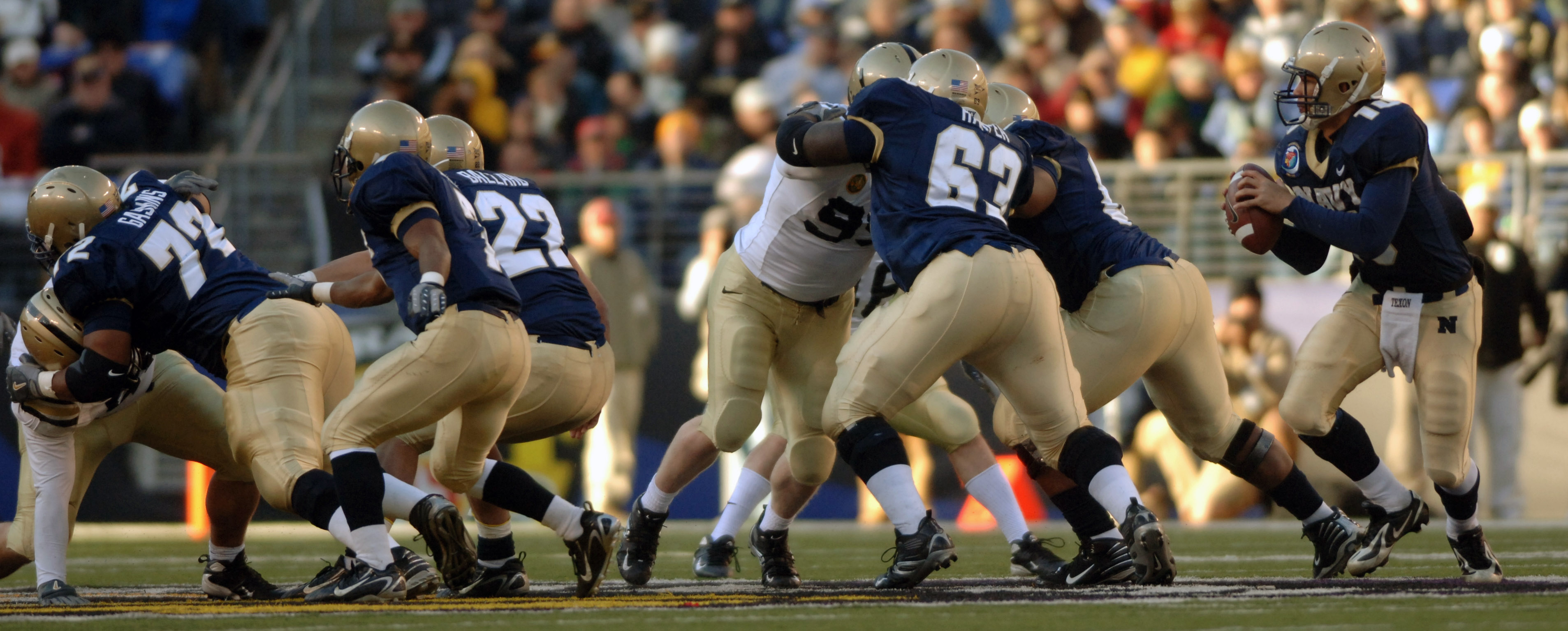 BALTIMORE (Dec. 1, 2007) Navy Quarter Back Kaipo-Noa Haheaku-Enhada (10) drops back to pass while receiving maximum protection from his offensive line at the 108th annual Army vs. Navy football game at M&T Bank Stadium. Navy defeated the Black Knights of Army by the score of 38-3. The Navy Midshipmen have now won the last six Army Navy battles. The 8-4 Midshipmen have accepted an invitation to play in the Poinsettia Bowl Dec. 20 in San Diego, Calif. U.S. Navy photo by Mass Communication Specialist 2nd Class Herbert D. Banks Jr. (Released)